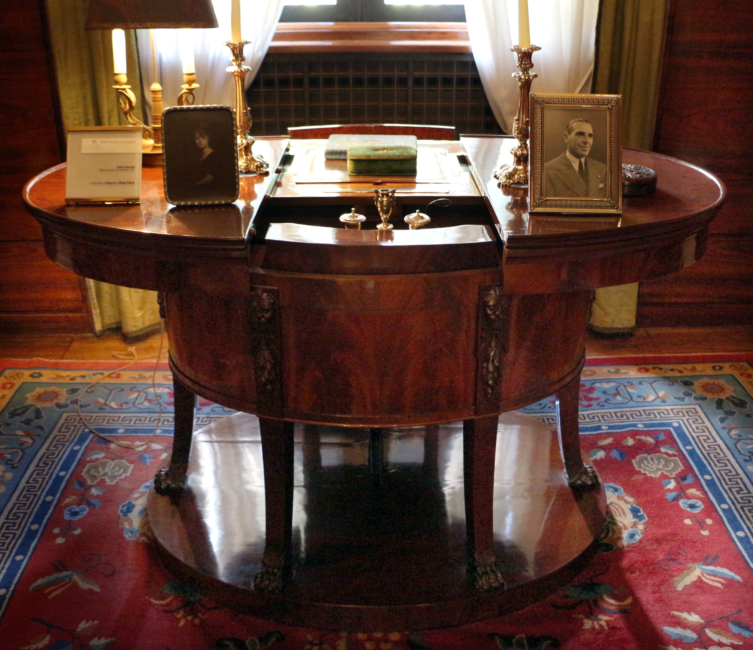 Villa Necchi Campiglio (Milan) - Inside